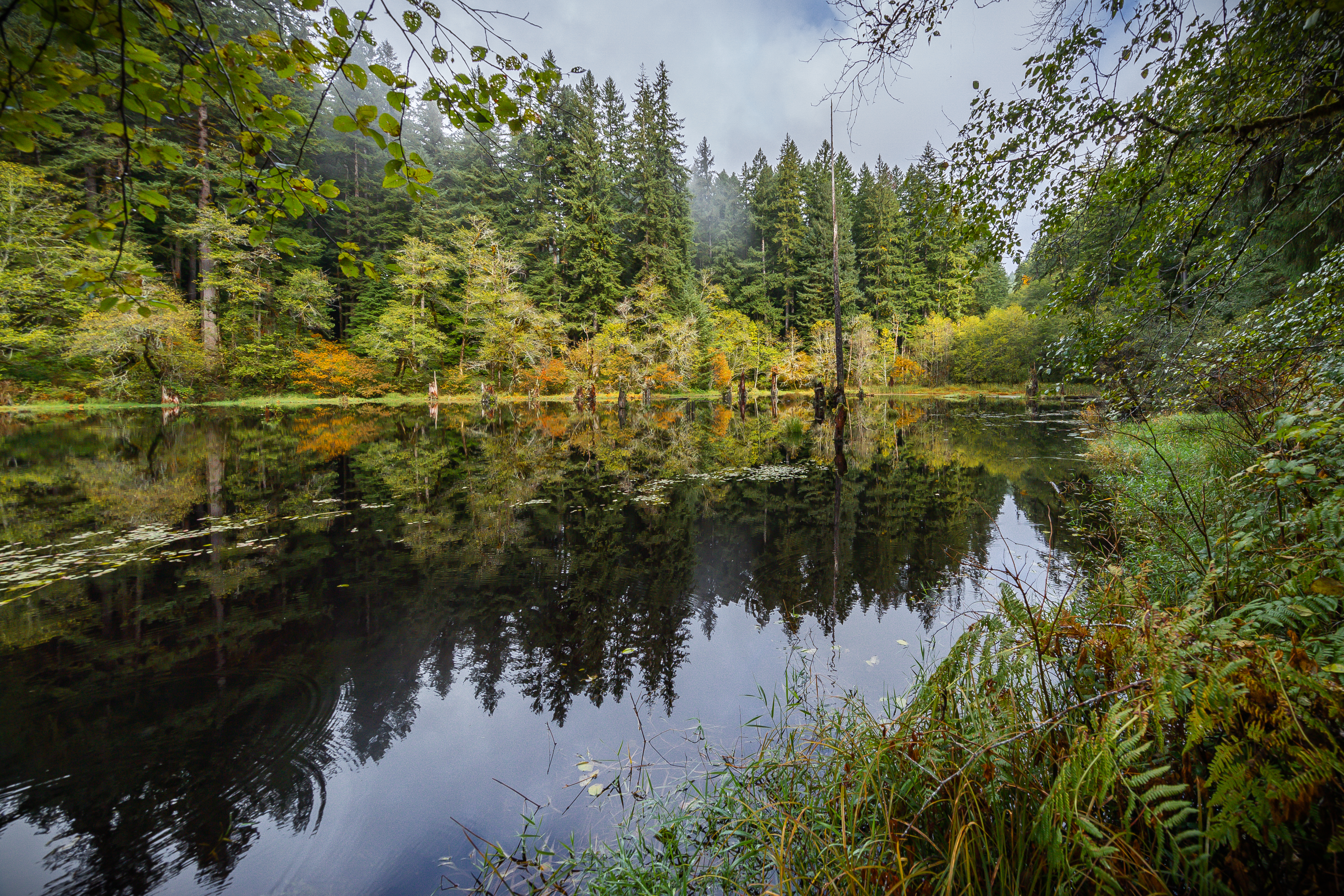 Morning view of autumn at Wasson Lake in the Devil's Staircase Wilderness, Oct. 22, 2019, by Greg Shine, BLM. The Devil’s Staircase Wilderness, nestled along the Umpqua River east of Reedsport, Oregon, is a rugged and largely inaccessible area of old-growth forest in the Oregon Coast Range. Douglas-fir, western hemlock and cedar trees tower over underbrush of giant ferns and huckleberries, providing critical habitat for the northern spotted owl and marbled murrelet. The remoteness and steepness of the area has precluded most logging activity, and no developed trails provide present-day access to the wilderness. The U.S. Forest Service and the BLM cooperatively manage the 30,000-acre wilderness, with the BLM responsible for approximately 6,800 acres. Know Before You Go: •Single lane gravel or paved roads access the area; •High clearance vehicle is recommended; •No motorized vehicles are allowed within the wilderness boundary; •There are no facilities or developed trails in the wilderness; and •Cell phone and GPS coverage in the area is intermittent. Point of Interest: Wasson Lake, located on the eastern boundary of the wilderness, is a pond with fluctuating water levels and is dotted with stumps from a long-ago forest. Location: The wilderness covers 30,000 acres of land between Reedsport and Scottsburg, Oregon, north of the Umpqua River. Contact: BLM Coos Bay District 1300 Airport Lane North Bend, OR 97459 Phone: 541-756-0100